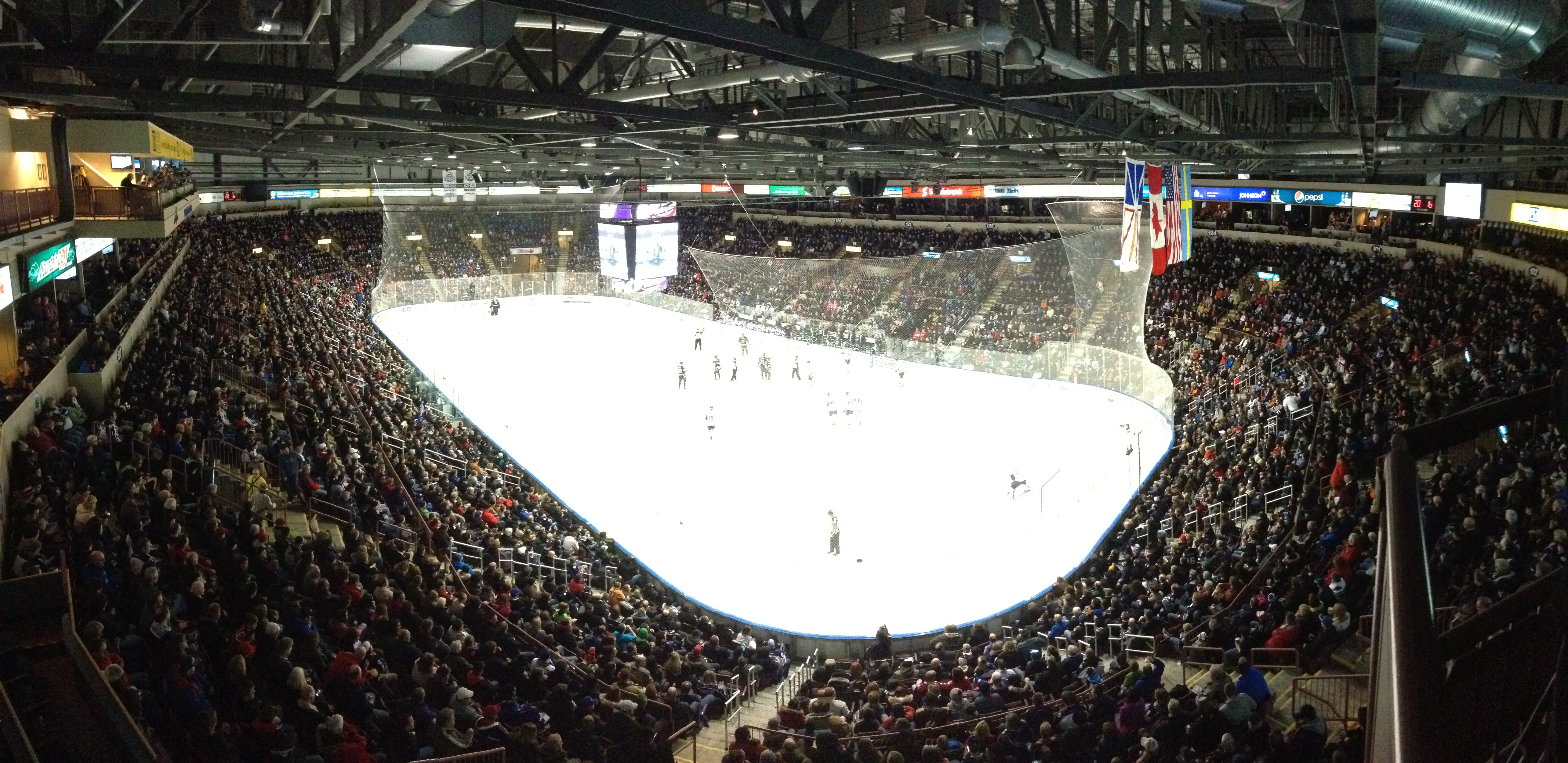 Photo courtesy of the St. John's IceCaps